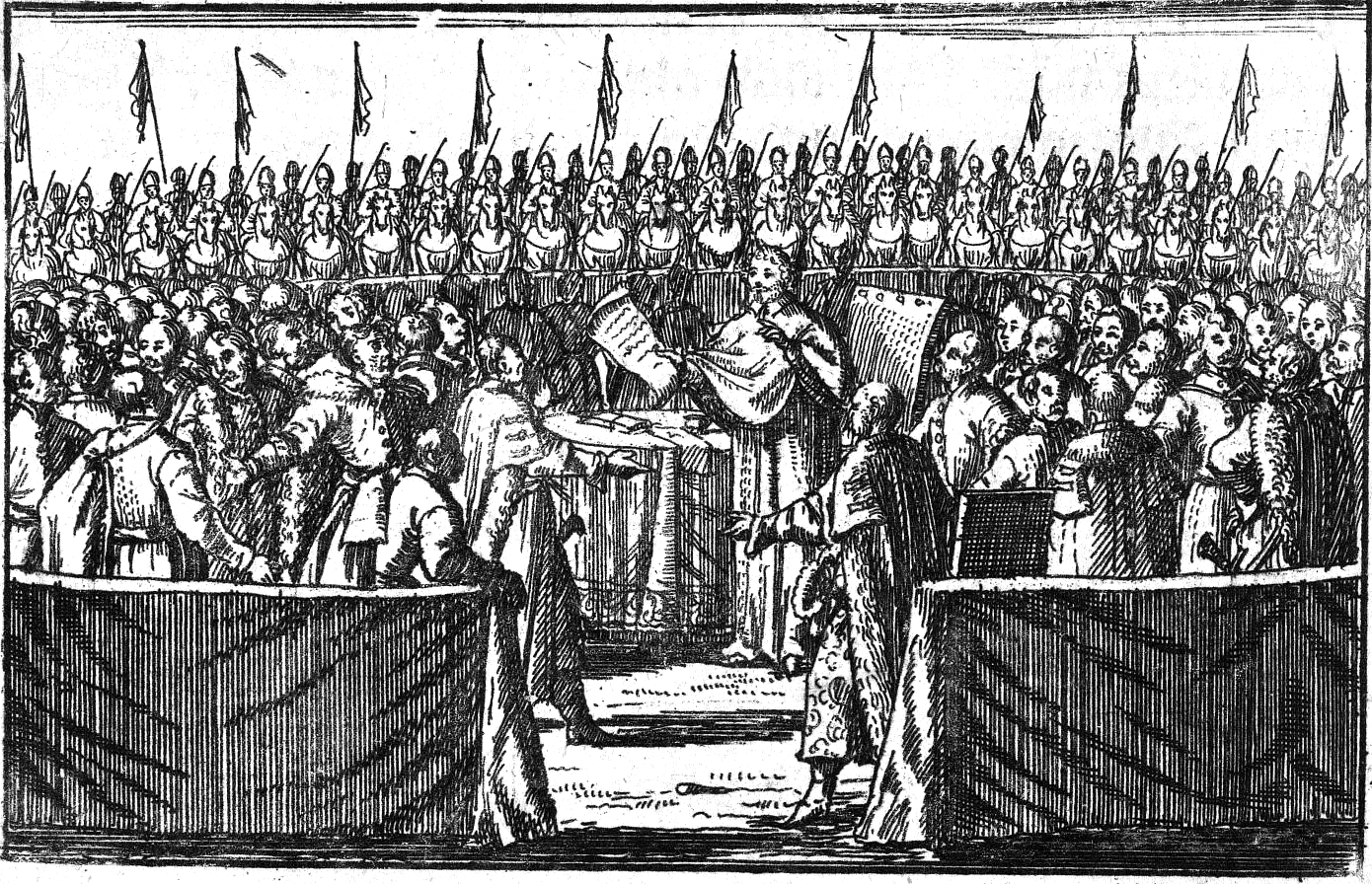 Election of Stanisław Leszczyński in 1704